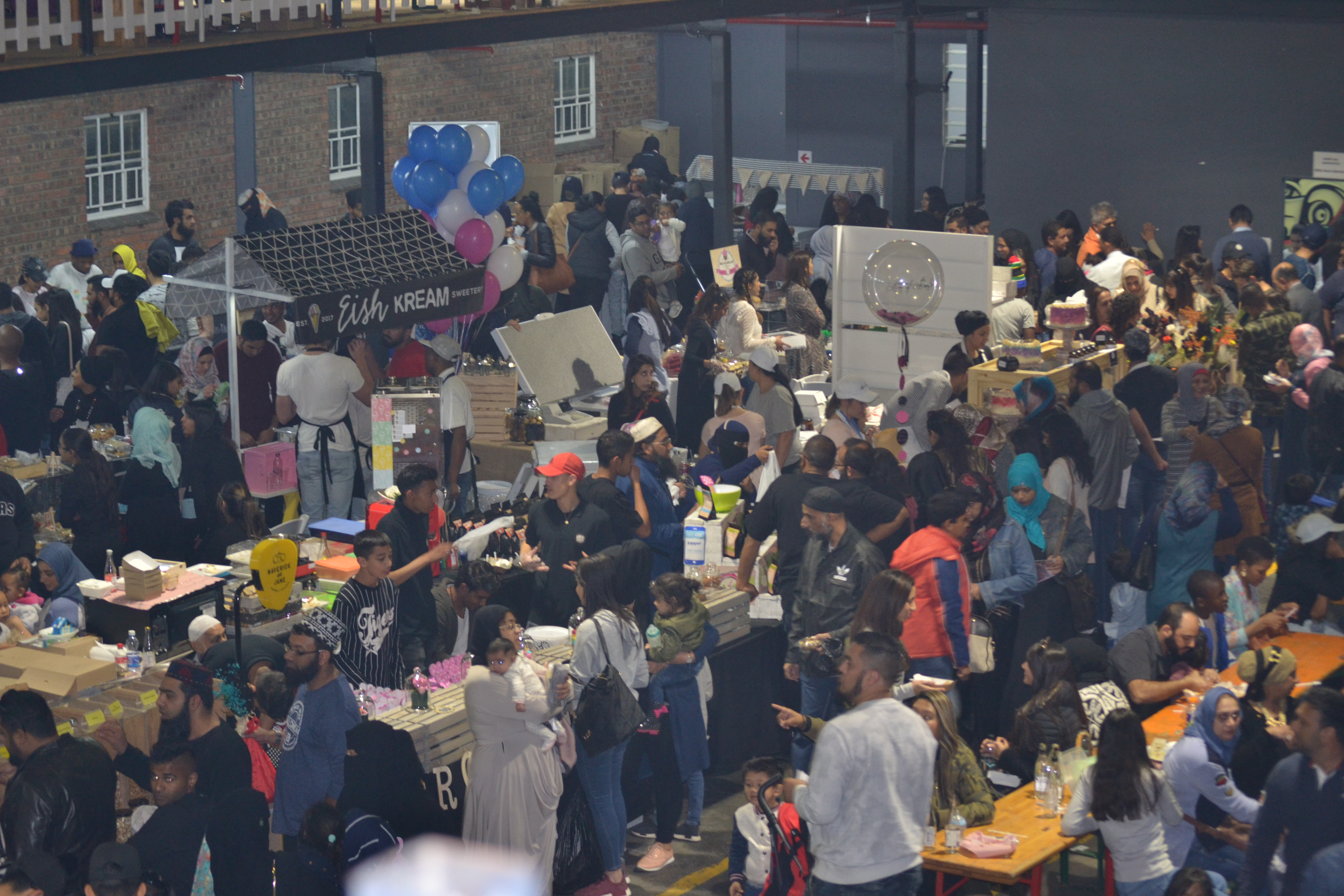 the HGM is an artisan market geared towards small industries and is largely attended by south african muslims This is an image of "African people at work" from South Africa